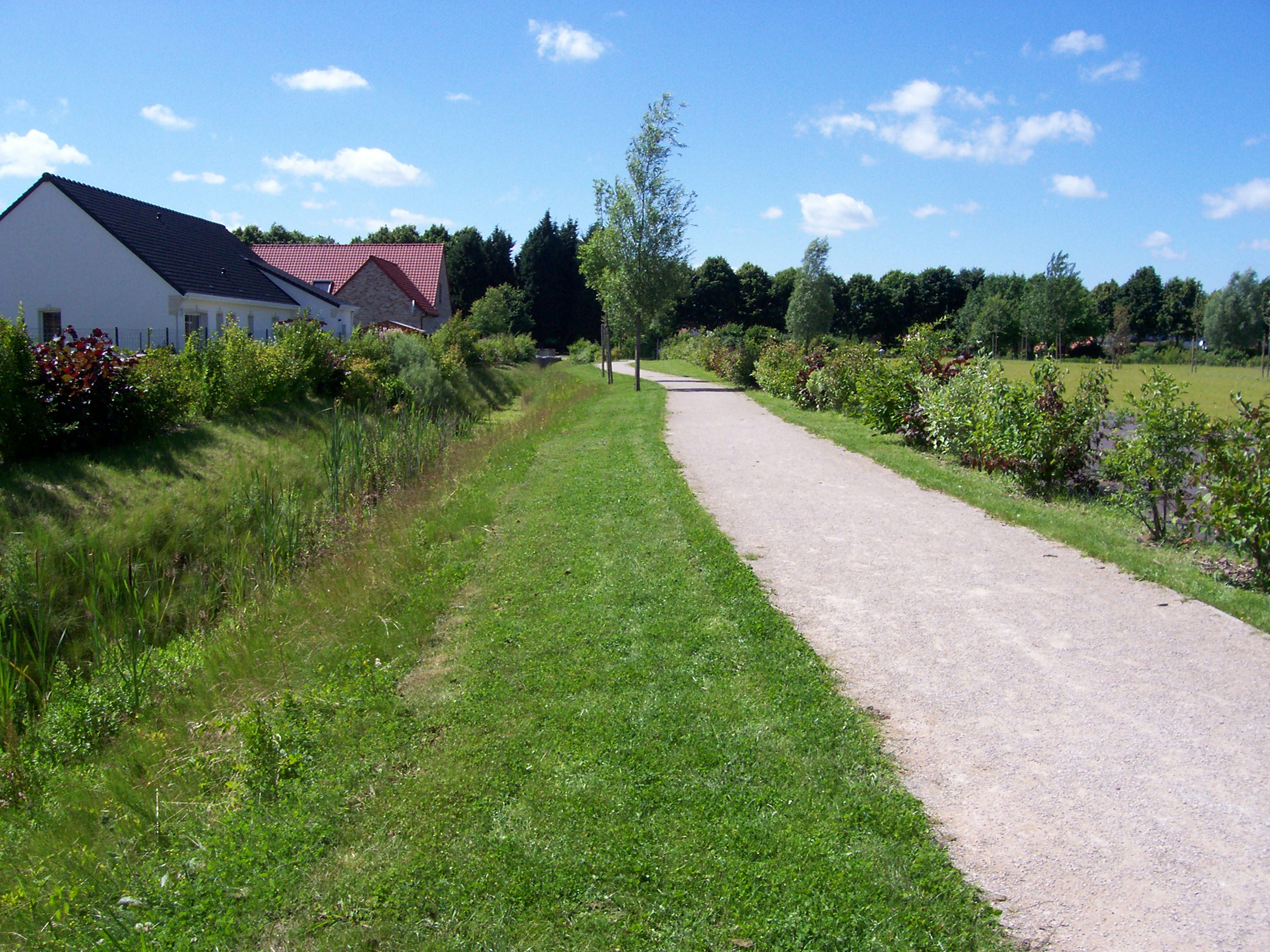 Path, Arques, Pas de Calais (France).